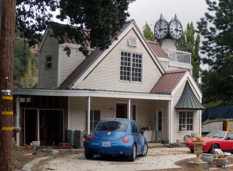 One of the distinctive, forested residences in a Lebec, California, neighborhood.